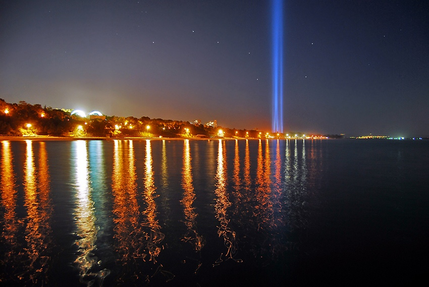 The Sea garden in Burgas, Bulgaria, as seen from the Bridge